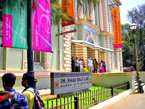 This was earlier known as V&A museum